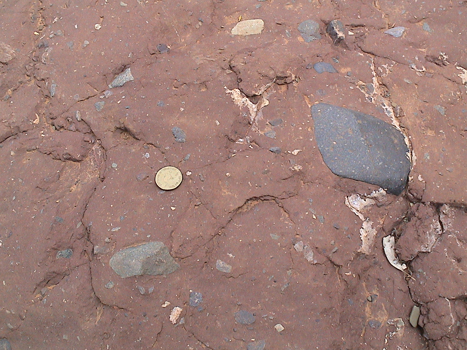 Elatina Fm diamictite, formed during the Cryogenian Period, adjacent to the Ediacaran GSSP site in Brachina Gorge, Flinders Ranges National Park; outcrop exposed in creek bed. $AUD1 coin for scale.